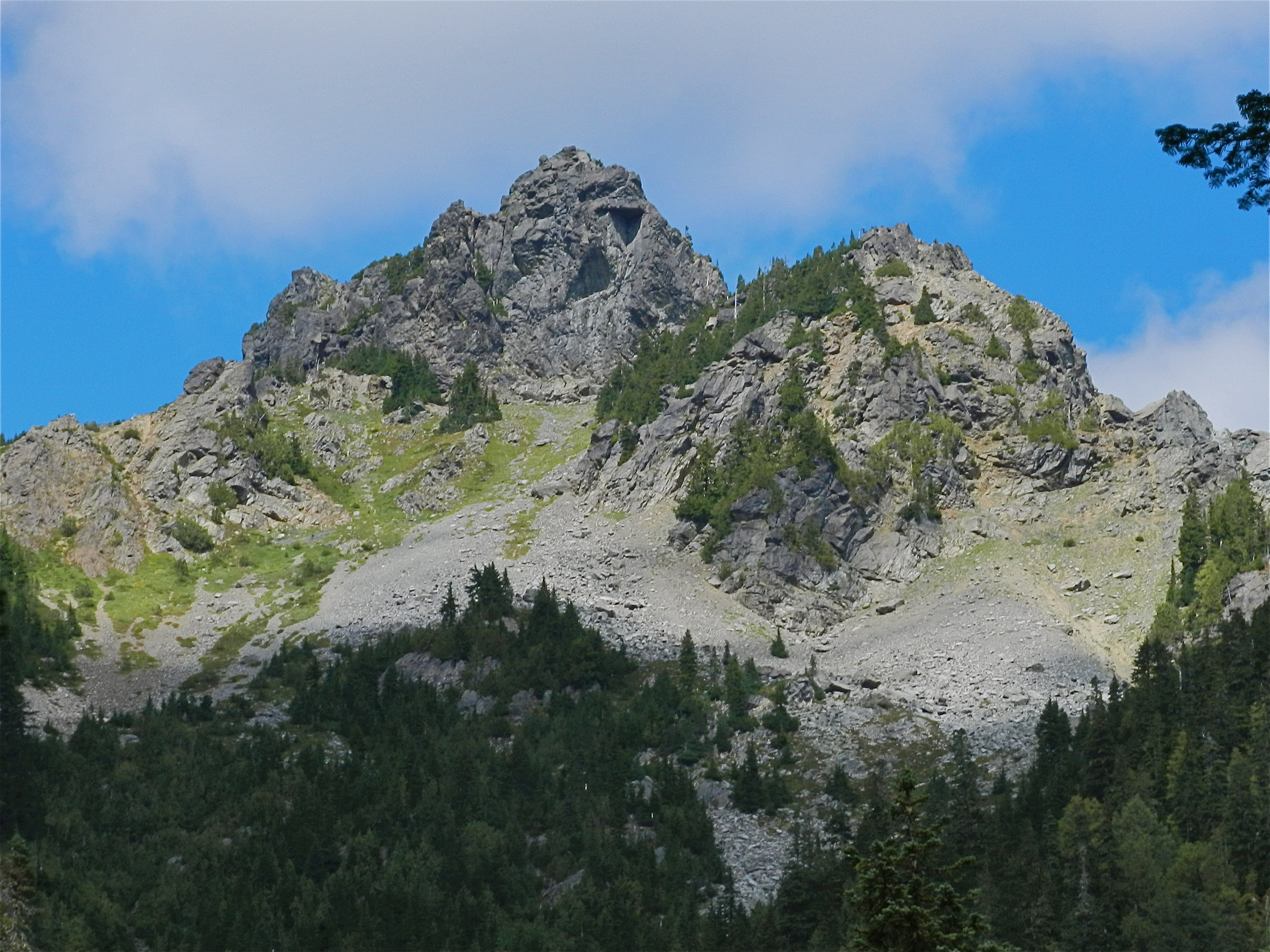 Malachite Peak, 6200 ft